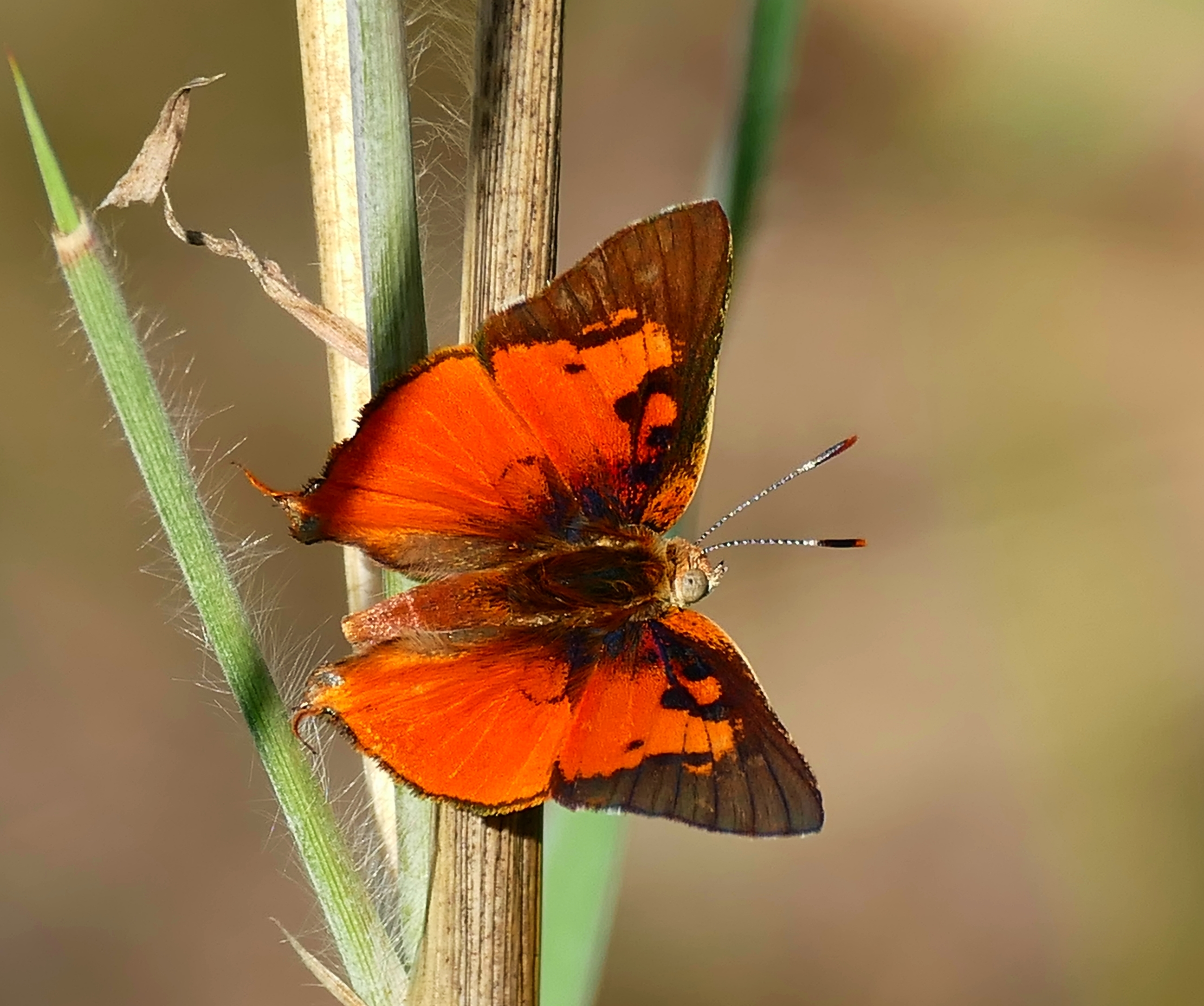 Common scarlet (Axiocerses tjoane) at the S14 Road South of Pretoriuskop, Kruger NP, Mpumalanga, SOUTH AFRICA